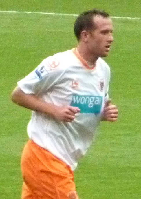 Charlie Adam cropped from, Clearly unfit and not on form, but it'll come.